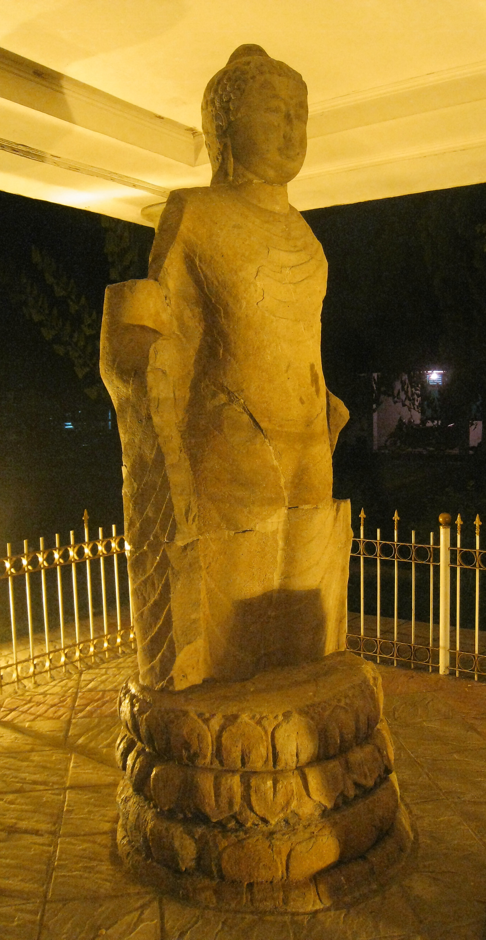 An Amaravati style Buddha statue displayed in Sultan Mahmud Badaruddin II Museum in Palembang. The statue was discovered in Seguntang Hill archaeological site in Palembang back in 1920s. It was discovered in pieces, the head part was discovered first, several months later the body parts were discovered, the leg part is still missing. The 277 cm tall statue made from granite stone commonly found in neighboring Bangka island. The statue followed the Amaravati style flourished in Southern India around 2nd to 5th century CE. The style was coppied during Srivijaya era and the statue was estimated to be dated around 7th to 8th century CE.